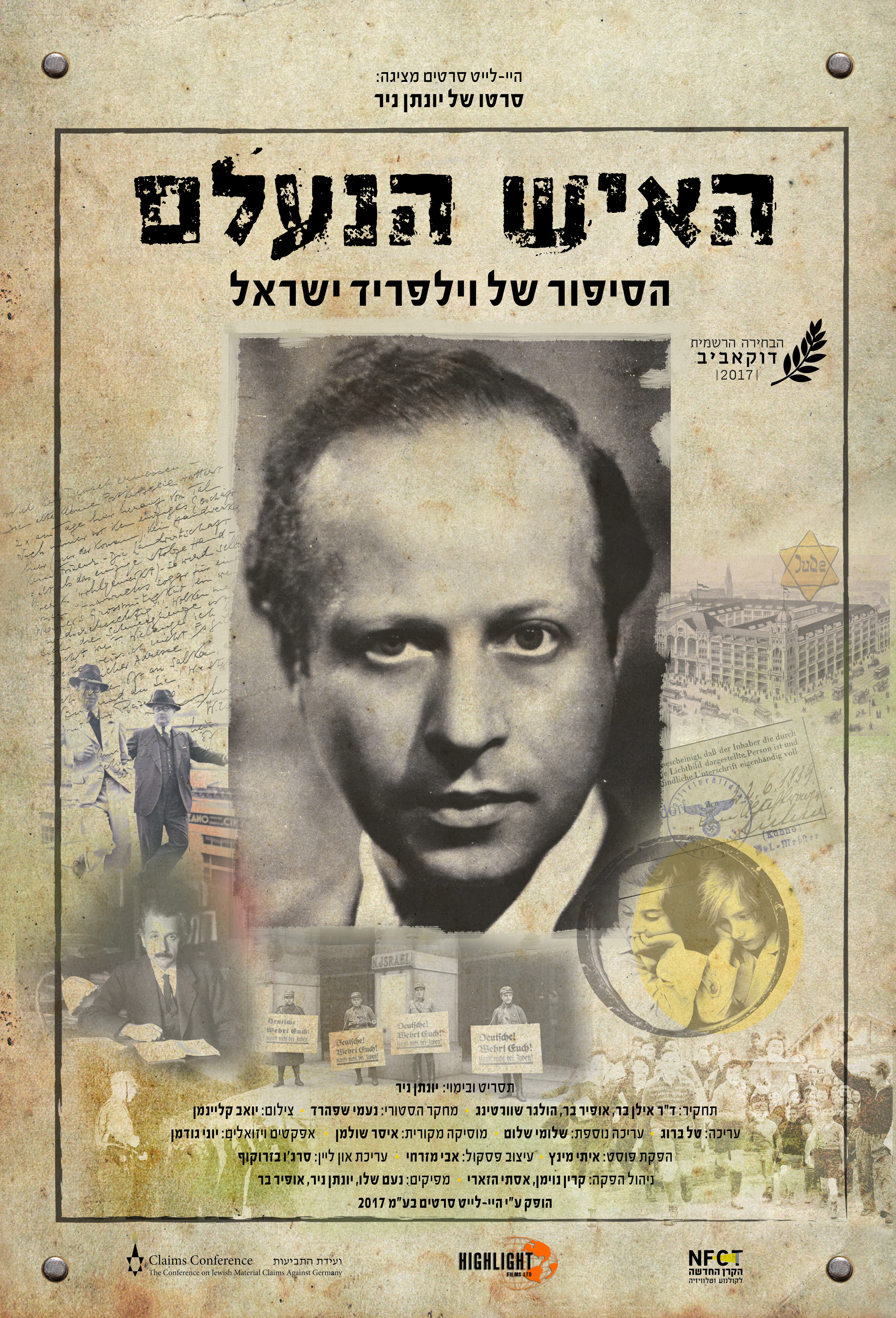 פוסטר מתוך סרטו התיעודי של יונתן ניר על וילפריד ישראל